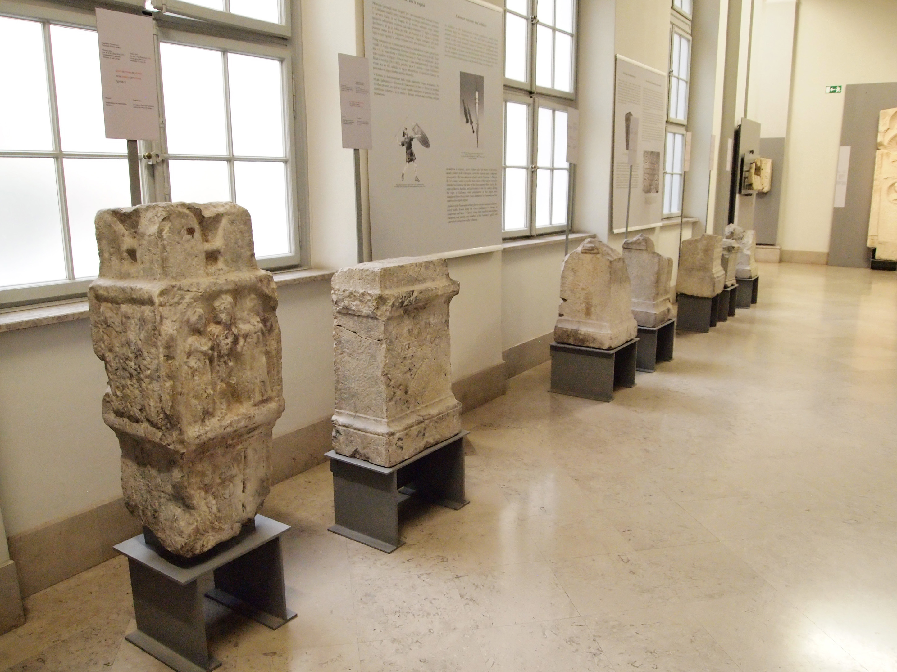 National Museum of Slovenia